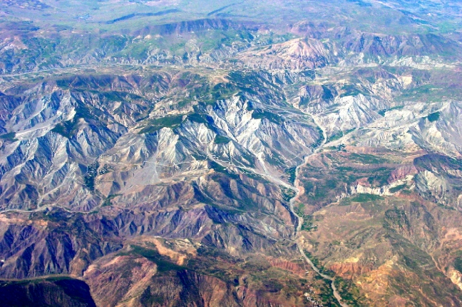 Aerial view of the mountains near Van, Turkey.Mountains